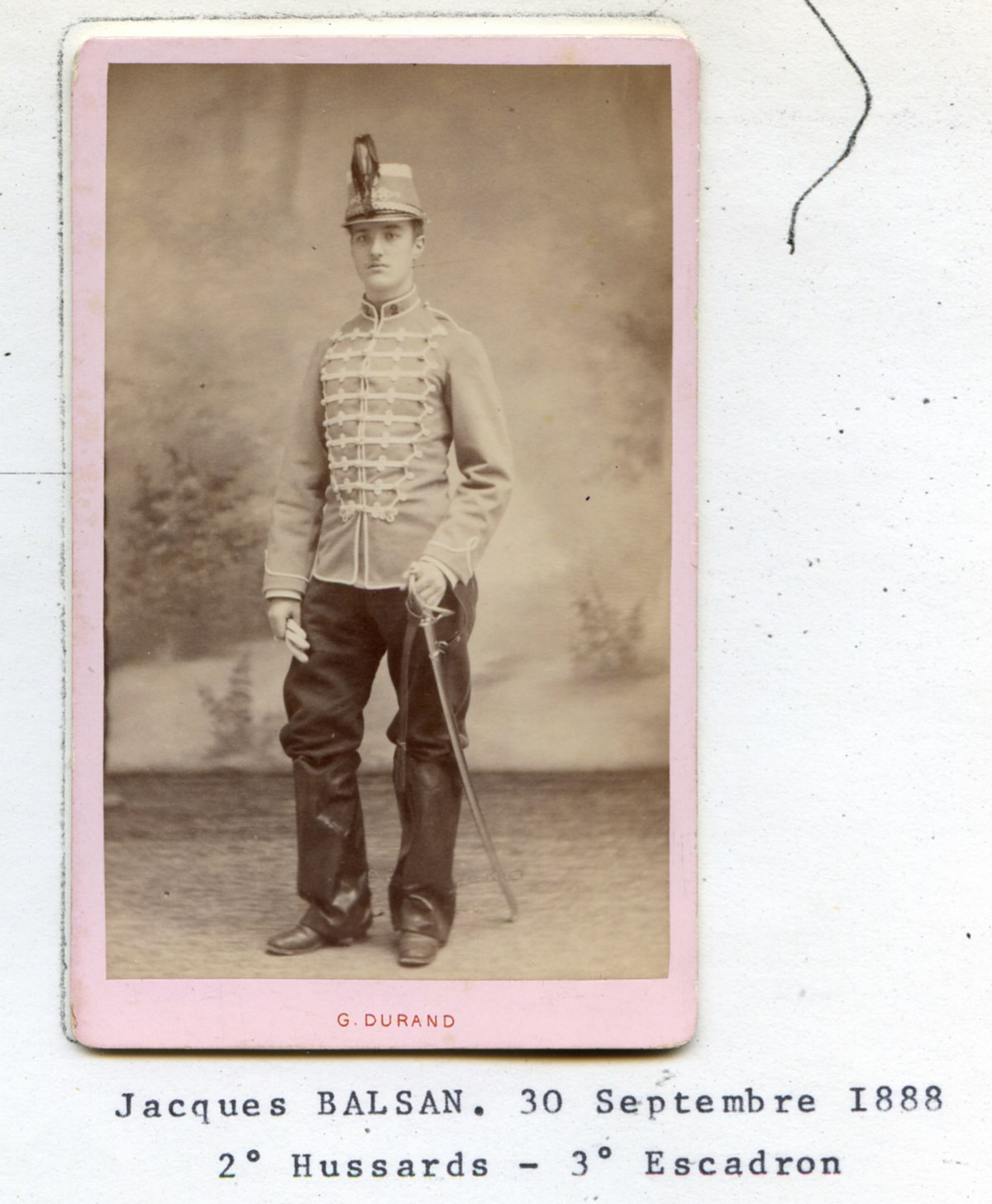 Jacques BALSAN, 30th september 1888, 2d Hussard, 3d Squadron